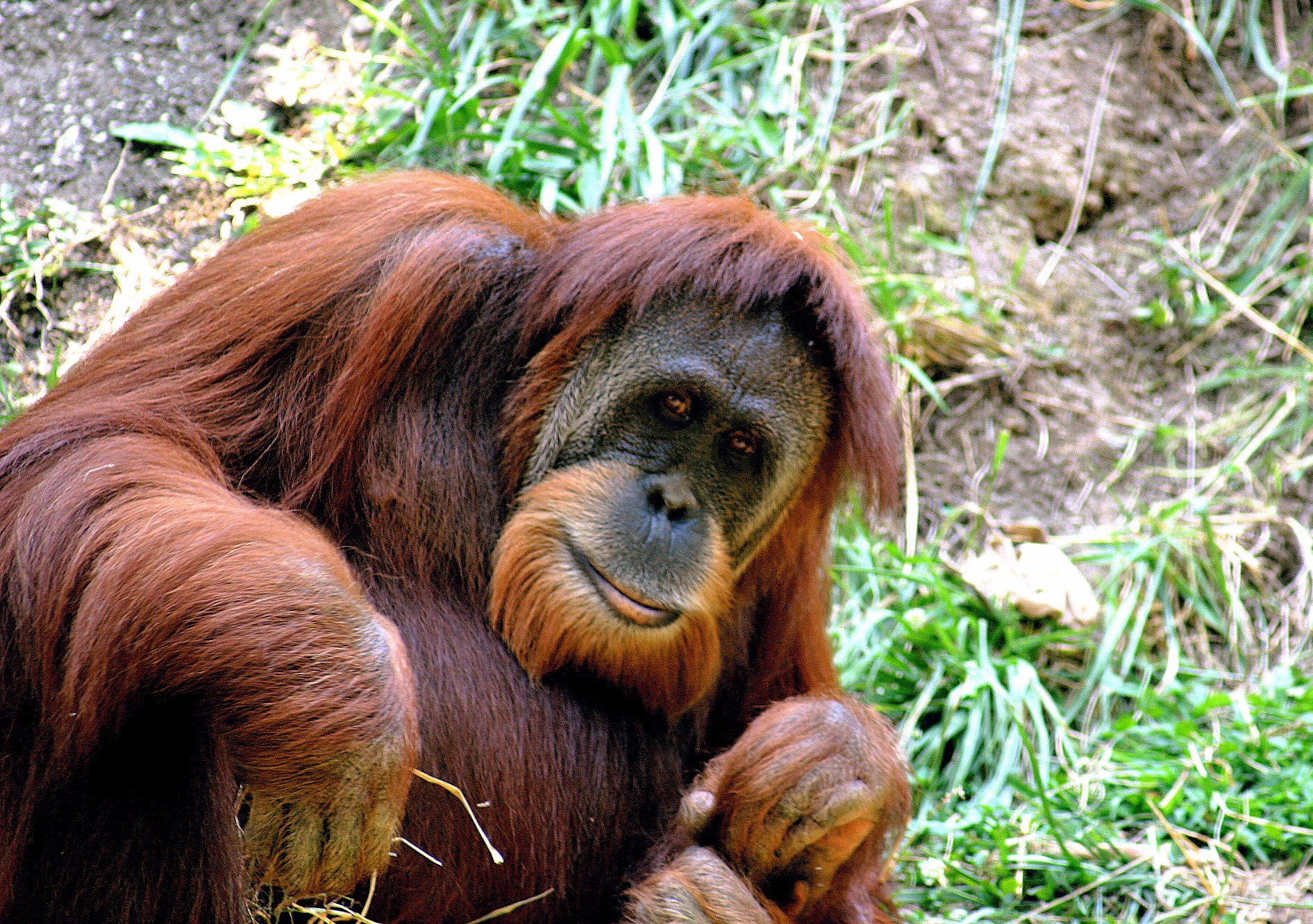 Sumatran Orangutan